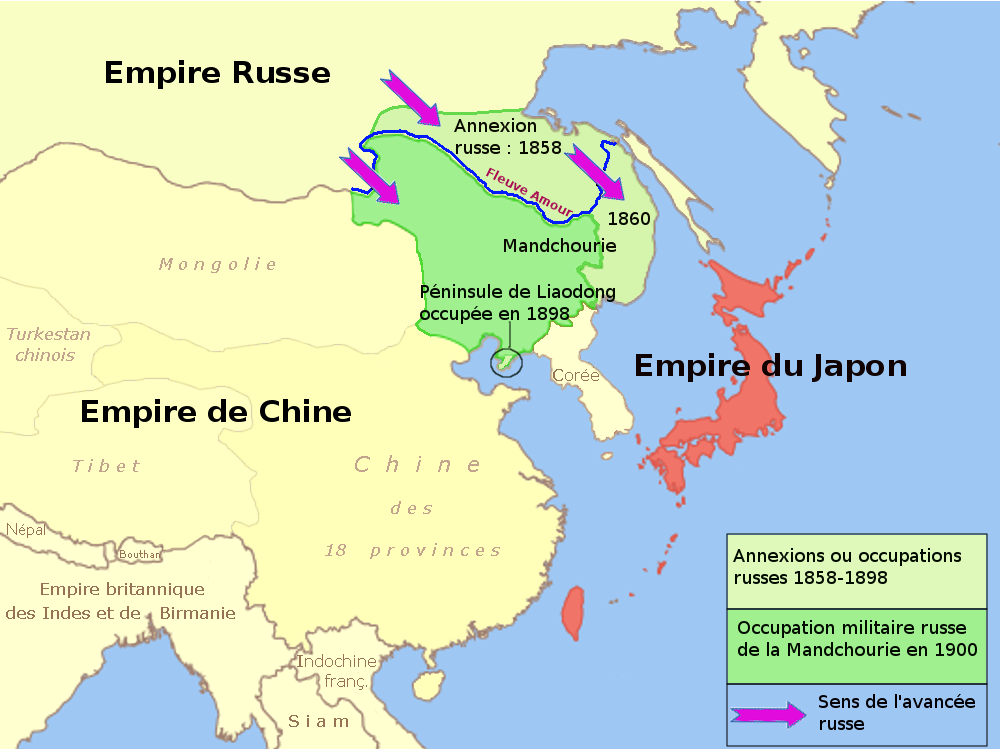 Takeover of Chinese Manchuria by Russians between 1858 and 1904. After the Russo-Japanese war of 1904-1905, Russia retains the annexed areas in 1858-1860, but lost others.